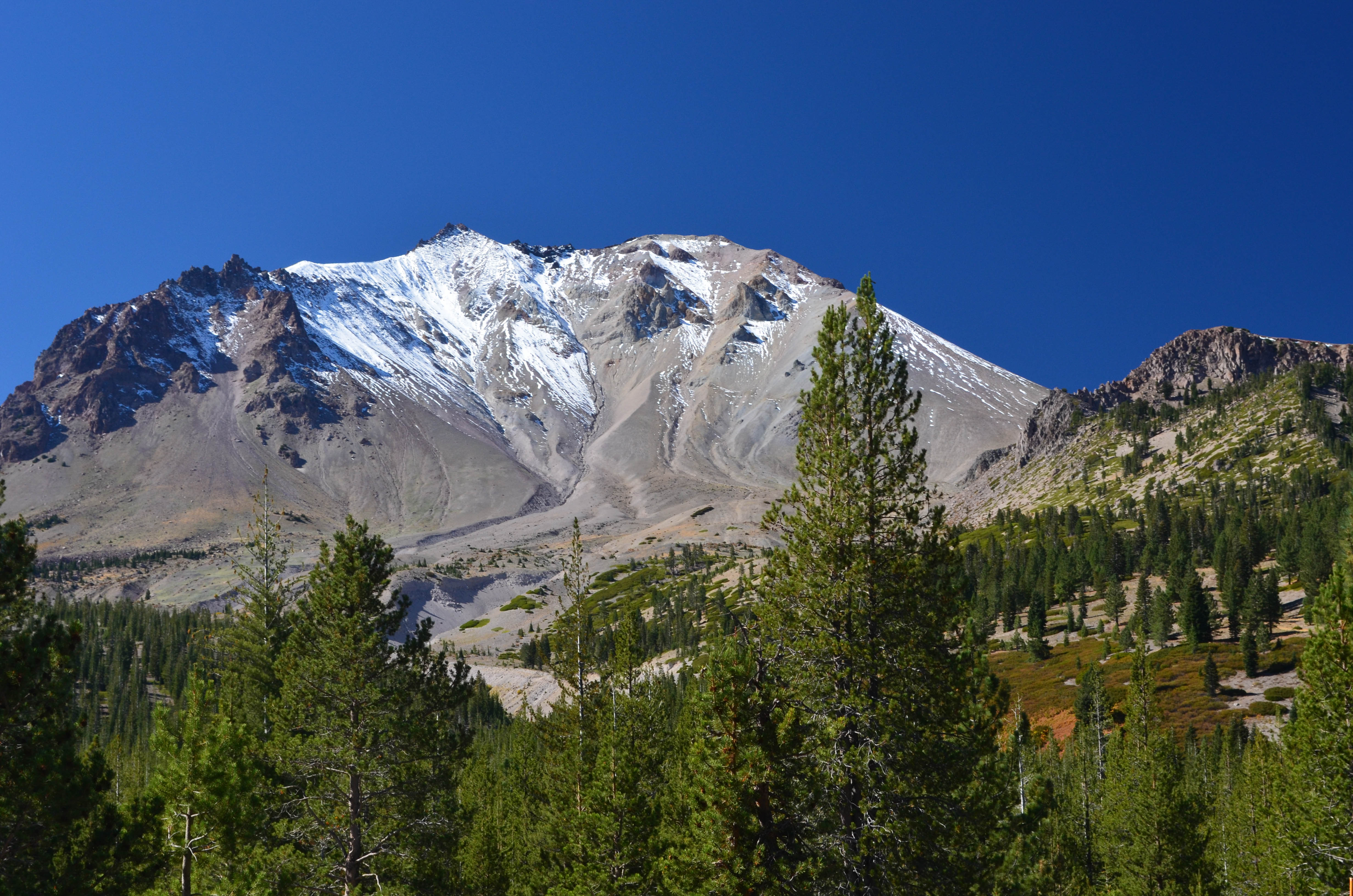 Devastated Area in Fall